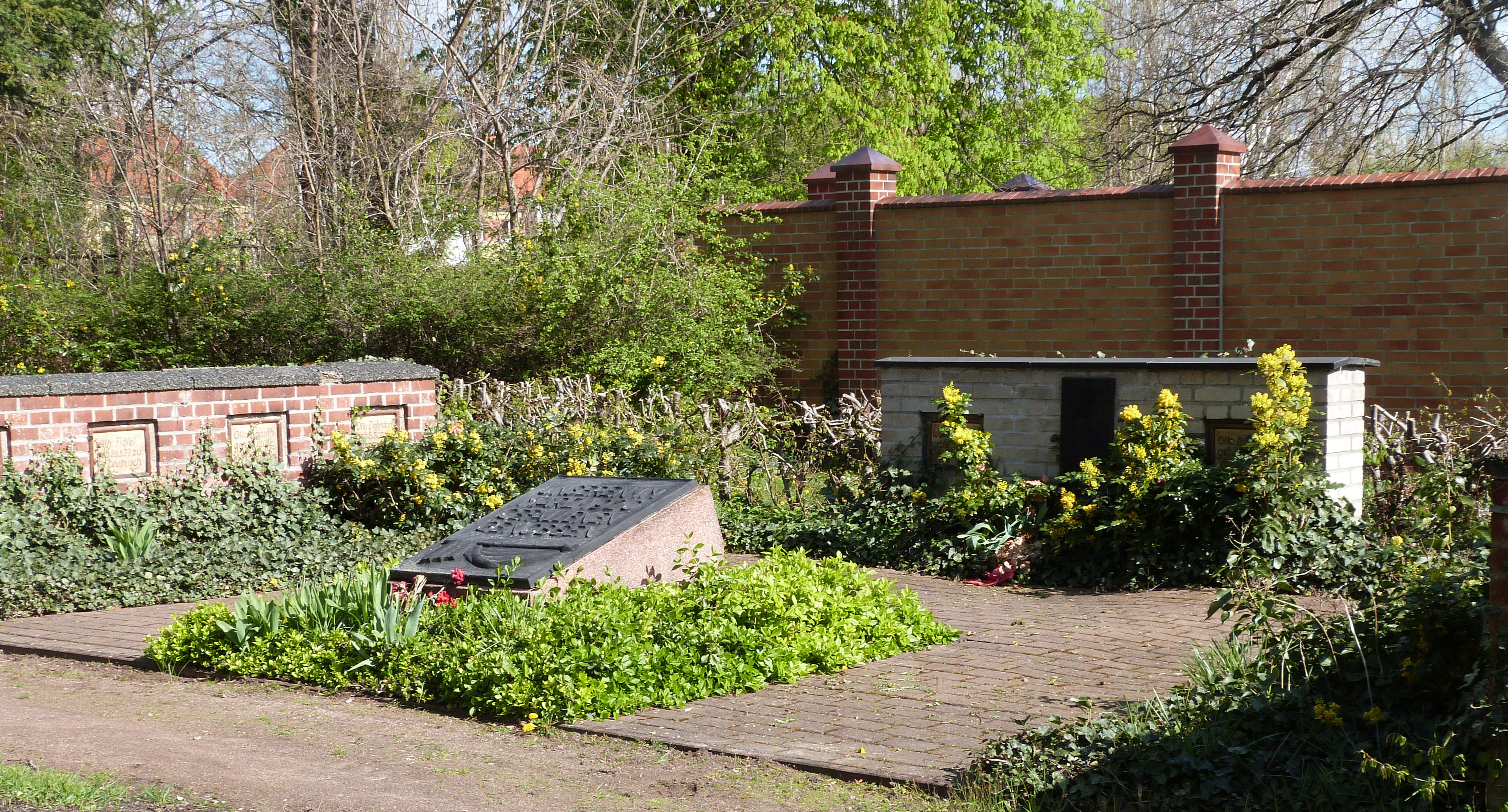 Cemetery Ammendorf in Halle (Saale), memorial to the fallen in March 1920 and March 1921 from Richard Horn (sculptor) and Martin Knauthe (architect)